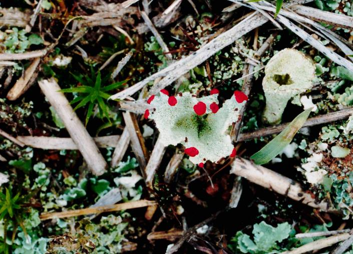 Cladonia pleurota (Flörke) Schaerer, 1850 Photographed in the field. These specimens were growing on soil on the E side of the high voltage power lines at the wood's edge (between the Serpentine Trail and Wards Chapel Road) at the Soldiers Delight Natural Environment Area, Owings Mills, Baltimore County, Maryland, USA (N 39o25.042', W 76o50.462').